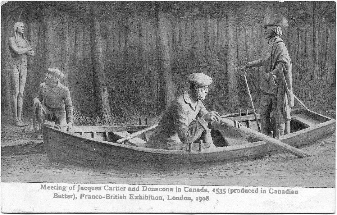 Postcard of butter sculpture tableau of the meeting of Jacques Cartier and Donnacona, Franco-British Exhibition, London, 1908. Sponsored by the Canadian Dairy Association.